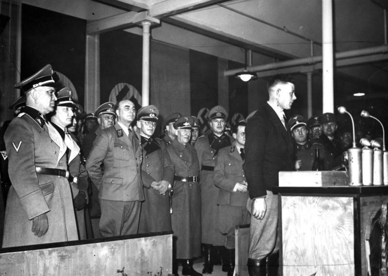 Governor of Warta Country, Arthur Greiser on 15.03.1944 delivers his speech during great rally of SS in "Allart's Wool Factory" in Litzmannstadt, 19 Kątna street, for NSDAP, SS officials, wounded soldiers and german colonists on the occasion of the one million German repatriate's settlement from the Soviet Union to the Warta Country, [place: not exists any more - wool spinning hall of "Polmerino" factory, 19 Wroblewski street, now (2013) - a condominium in progress.]